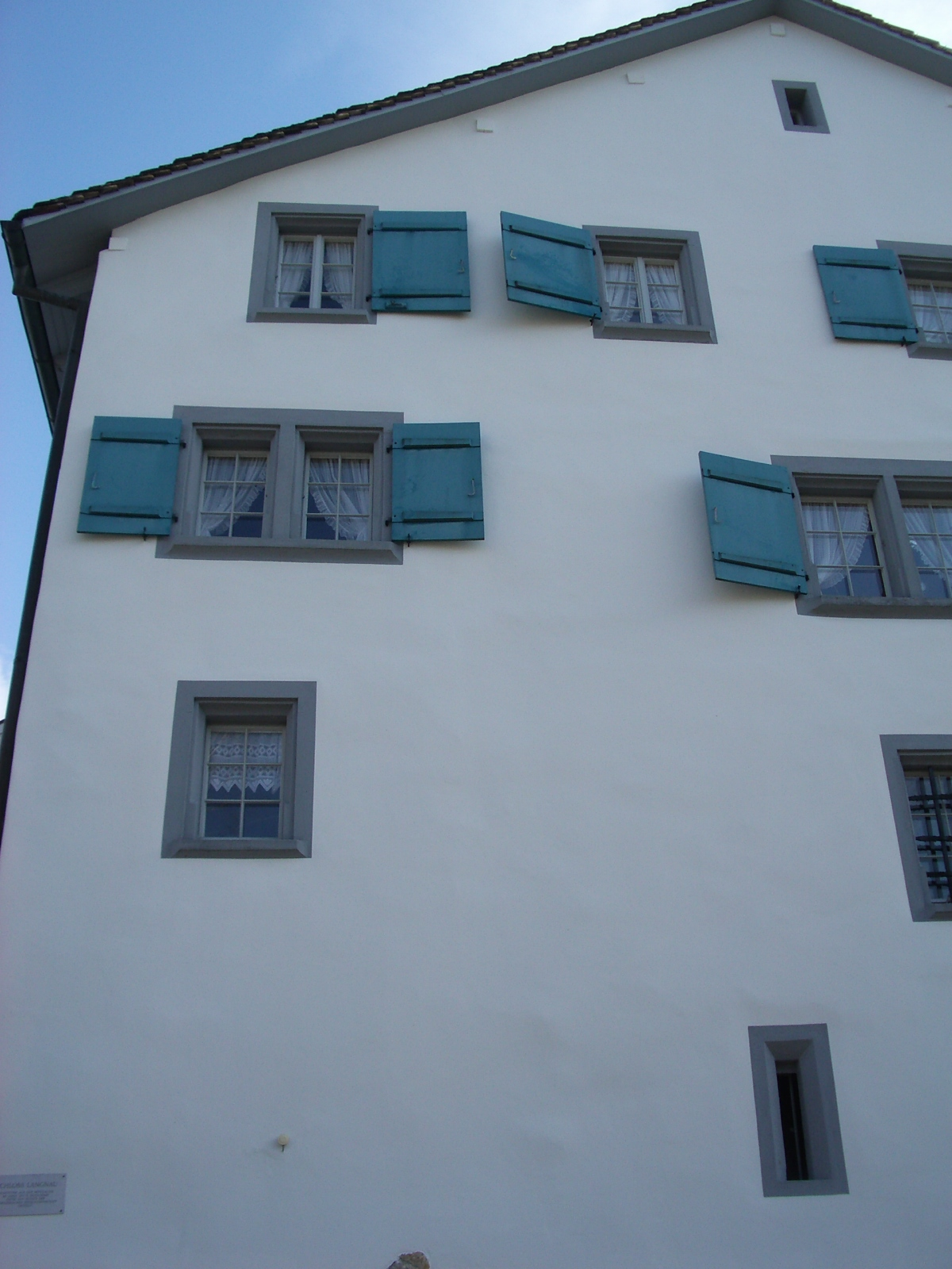 Langnau am Albis ZH, Switzerland